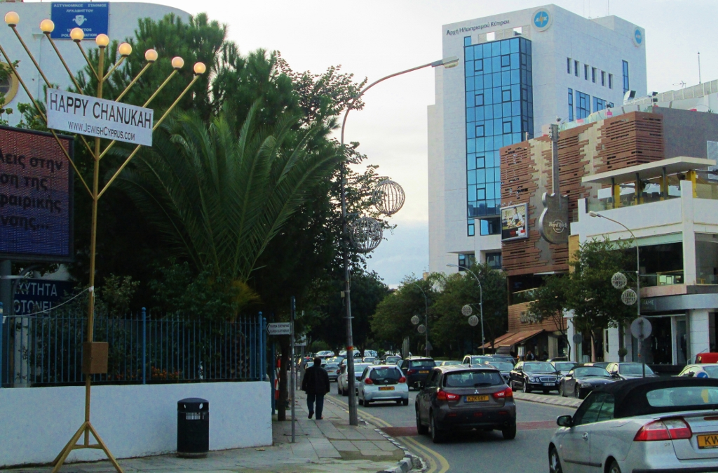 Jews of Cyprus Association (Israel-Cyprus)